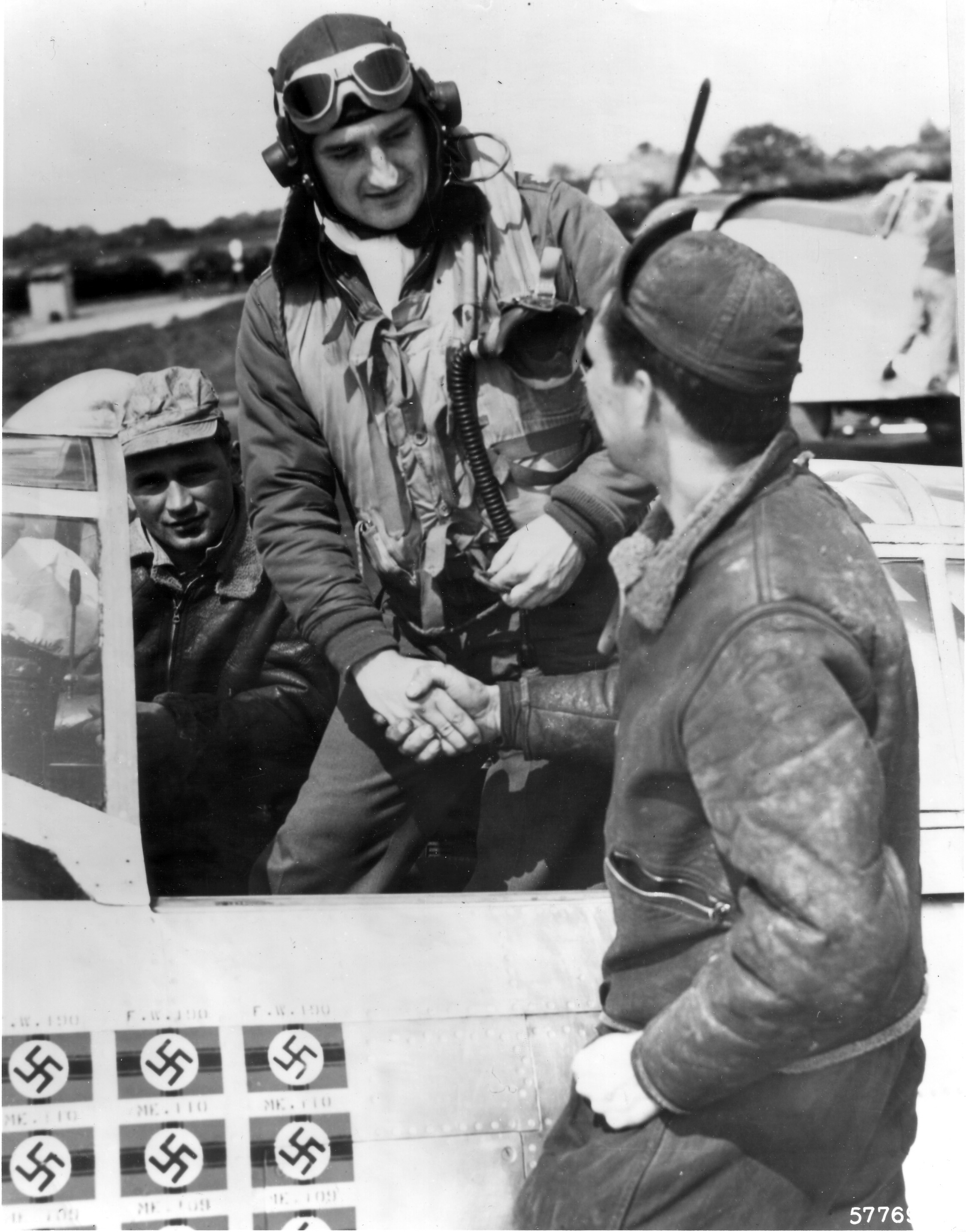 Lt. Col. Francis S. Gabreski and Staff Sgt. Ralph Safford, crew chief, prepare for flight. The assistant crew chief is in the background. Image received 30 June 1944 from BPR. (Courtesy: USAF)Original caption: Lt. Colonel Gabreski and crew chief, S/Sgt. Ralph Safford, Ionia, Mich. Ass't crew chief Schacki in background.